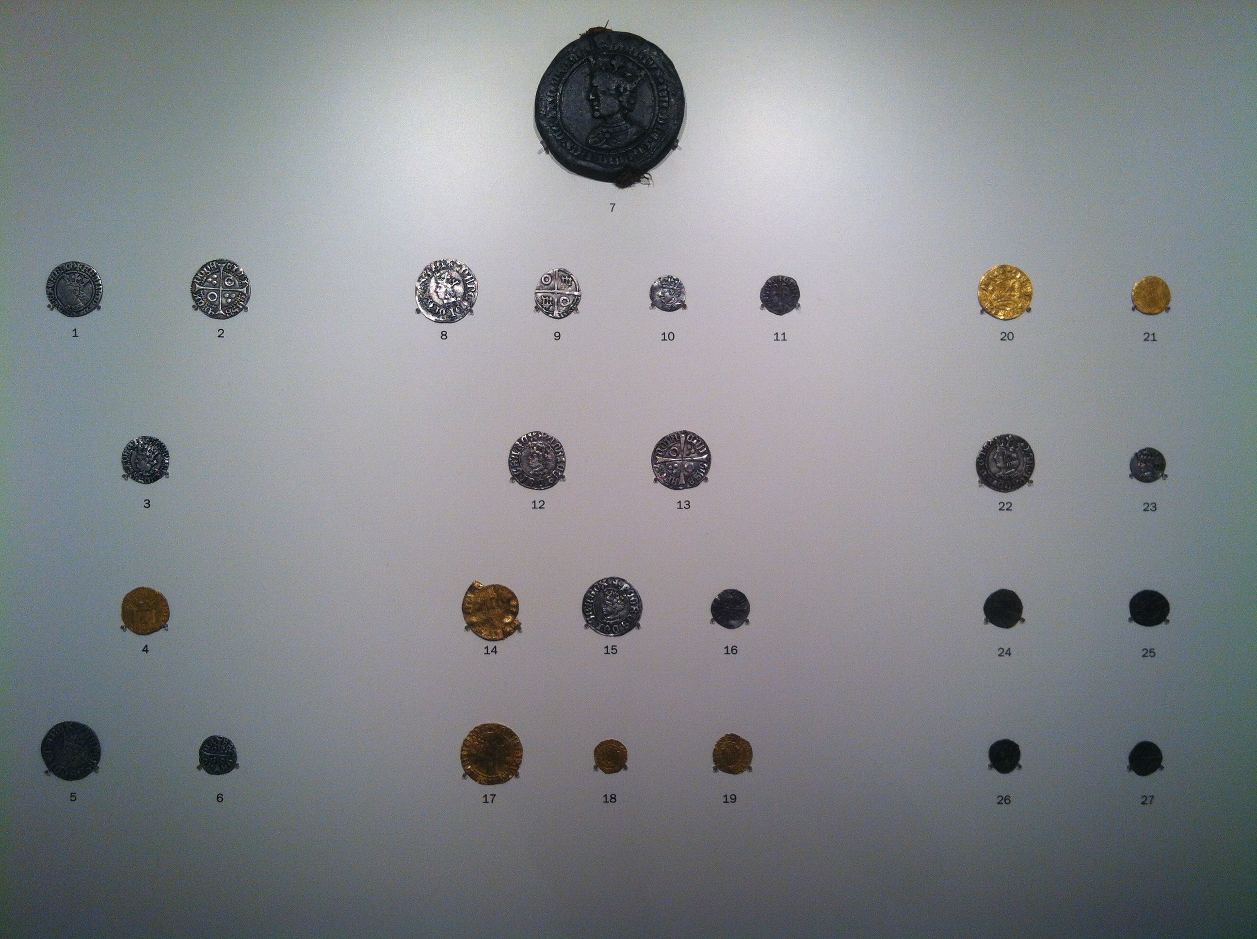 Numismatic collection conserved at MNAC in Barcelona.The collection of the Numismatic Cabinet of Catalonia, open to consultation by researchers, is formed by over 135,000 pieces. The principal numismatic series are represented here, with coins dating from the 6th century BC to the present day, as well as medals, valuable paper, tokens, monetary weights, scales, dies, decorations and insignia. Of all this wealth of material, the most important and emblematic series are without doubt the Catalan ones. They include extremely rare pieces, such as the first silver coins ever struck in the Iberian Peninsula by the Greeks of Emporion, the issues of the Catalan counties, those of the 17th-century Reapers’ War, those of the Napoleonic invasion and the bank notes issued by local councils in Catalonia during the Civil War of 1936-1939